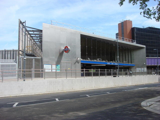 Wood Lane tube station A New station designed by Ian Ritchie Architects and opened on 12 October 2008. Built to serve the nearby Westfield shopping centre